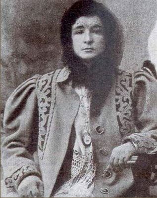 Photo of Enriqueta Marti (Sant Feliu de Llobregat, Spain, 1868 - Barcelona, 1913) a serial killer and murderer of kids.